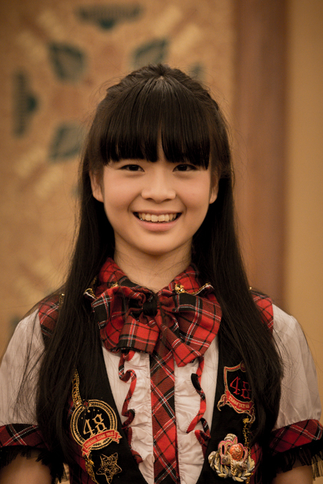 Cindy Yuvia 131130 JKT48 Press Conference - Meet and Greet NgayogyakarLove Galeri Indosat - Jogja Plaza Hotel